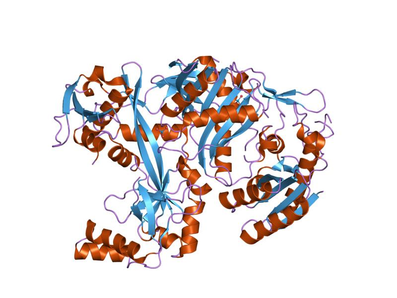 Cartoon representation of the molecular structure of protein registered with 1z26 code.